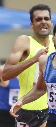 Athletes during 22nd Asian Athletics Championships in Bhubaneswar.